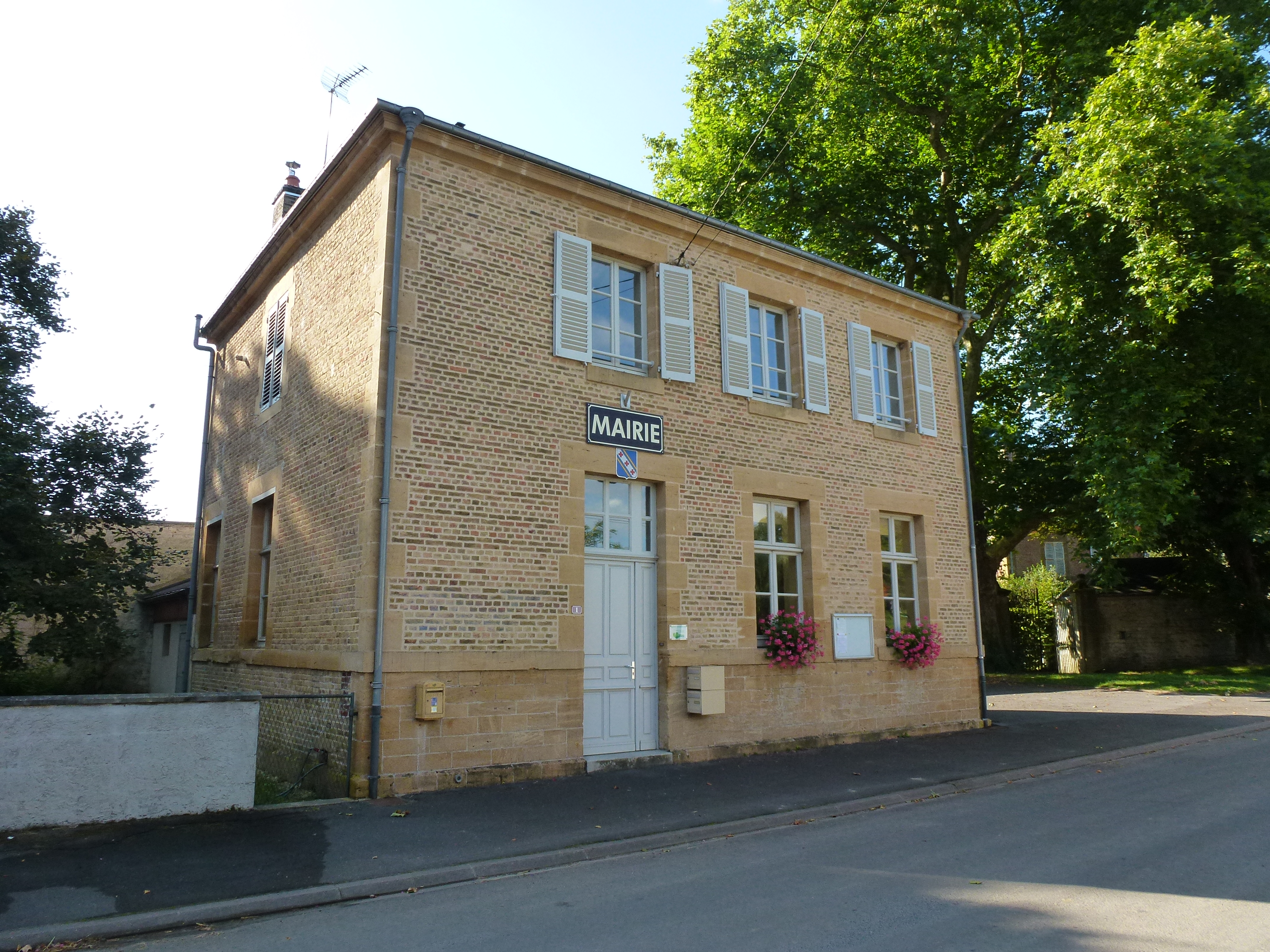 Marquigny (Ardennes) mairie